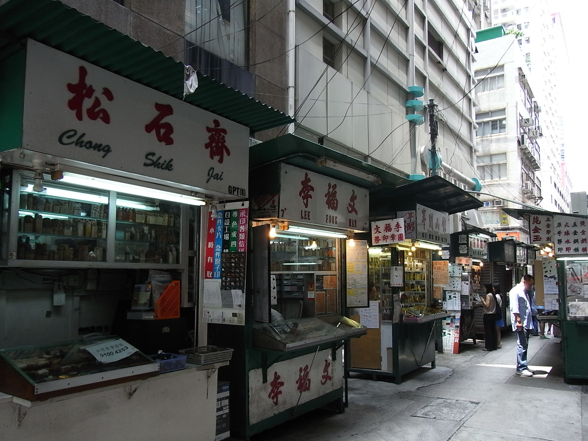 Man Wa Lane, Sheung Wan, Hong Kong